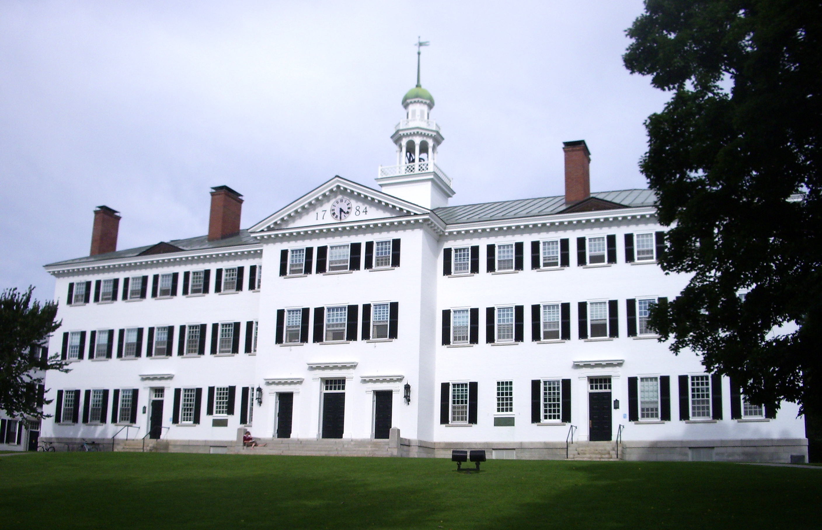 Photograph of Dartmouth Hall at the campus of Dartmouth College in Hanover, New Hampshire. Cropped from original and contrast/brightness improved.